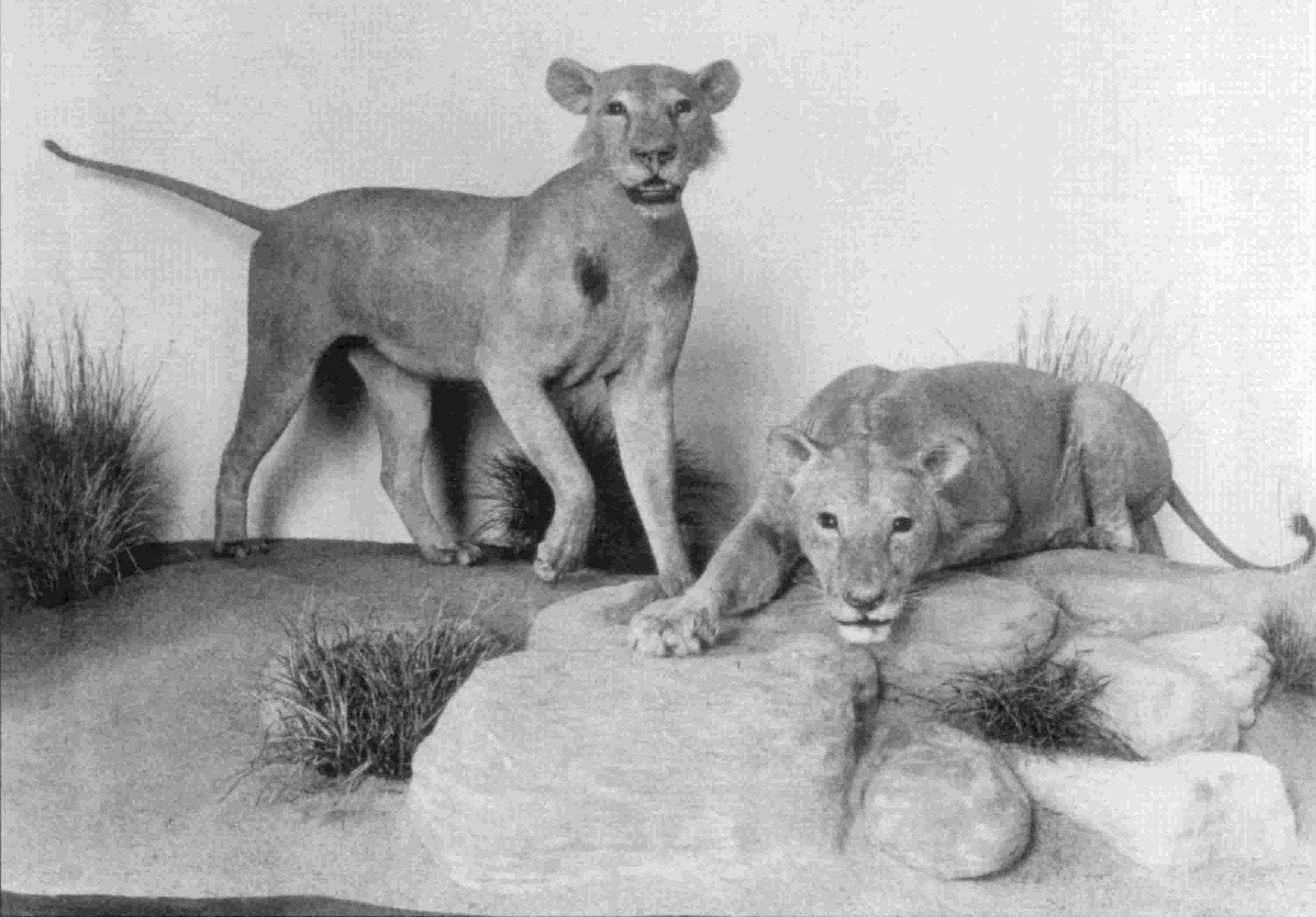 Black and white picture of Tsavo Man-Eaters as shown in the Field Museum of Natural History.